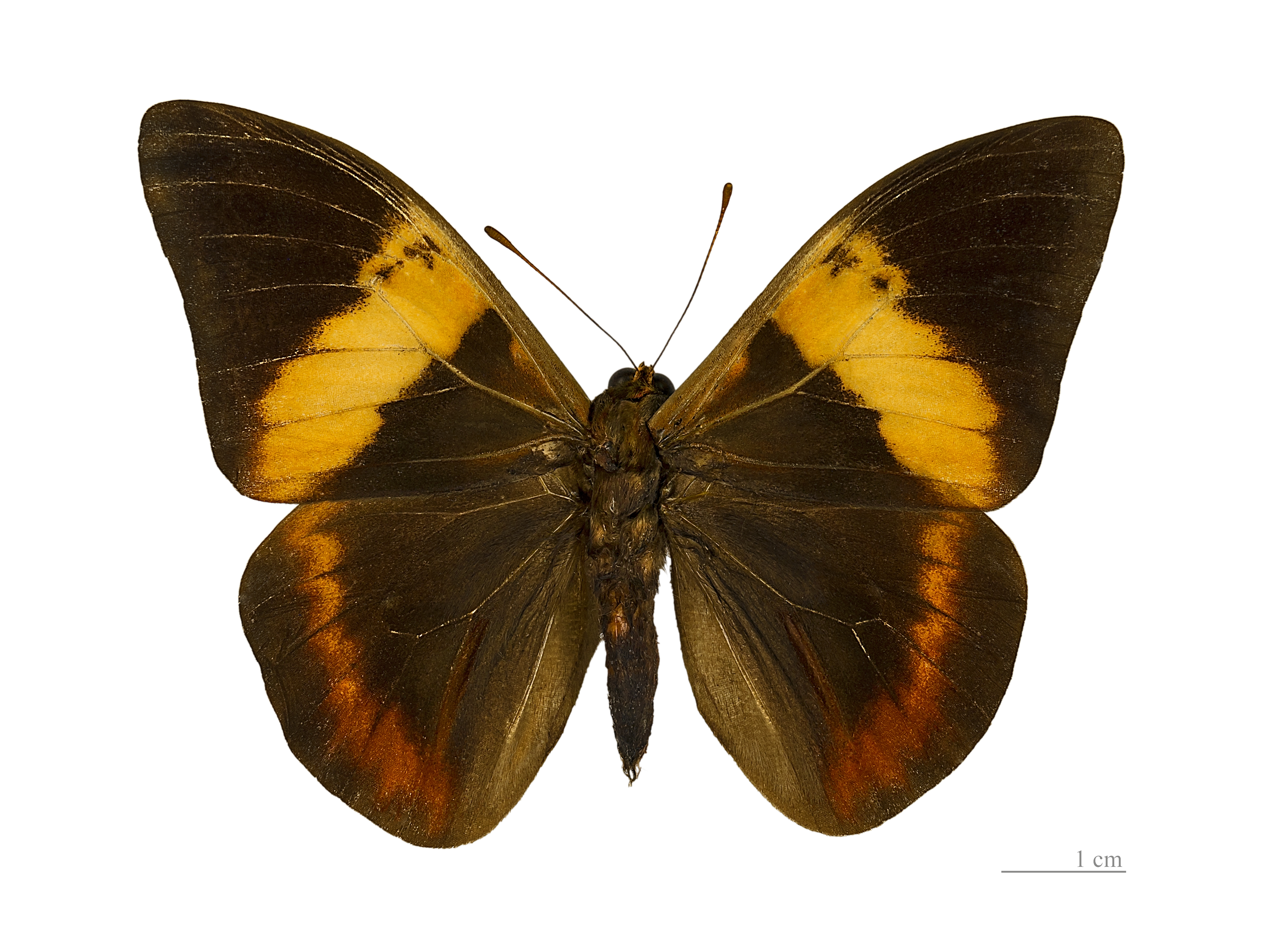 Brassolis sophorae, dorsal side.